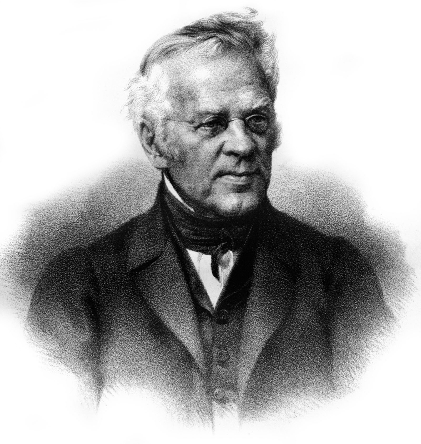 Ivan Ivanovich Lazhechnikov